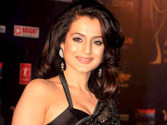 Ameesha patel